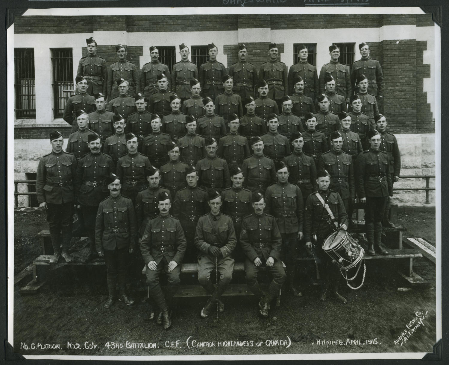 1915 April 15, Cameron Highlanders of Canada 43rd battalion CEF, 2nd company 6th platoon, Winnipeg, MB, Canada. from James White (1892-1976) family photos, fifth from right of photo, middle of top back row